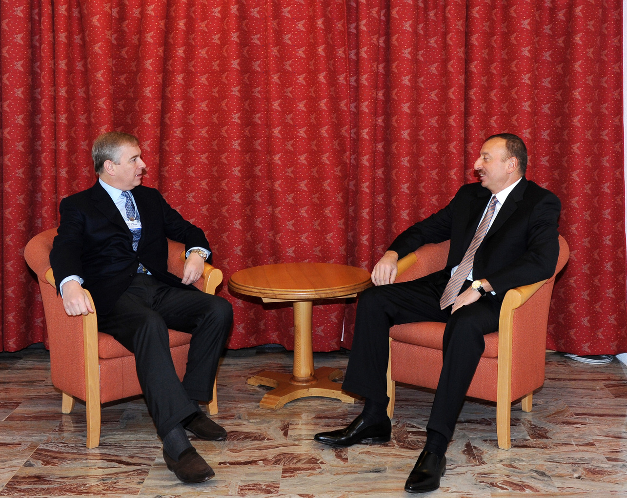 Ilham Aliyev met with Duke of York of the Great Britain, Prince Andrew